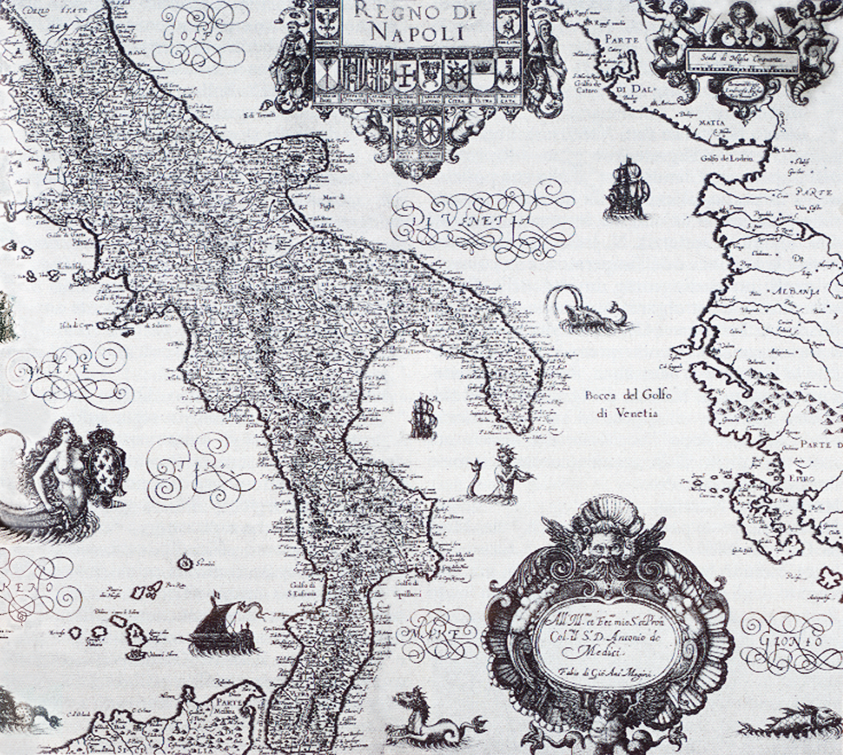 Map of the Kingdom of Naples by Fabio di Giovanni Antonio Magini (XVII century) with twelve coats of arms of historic provinces